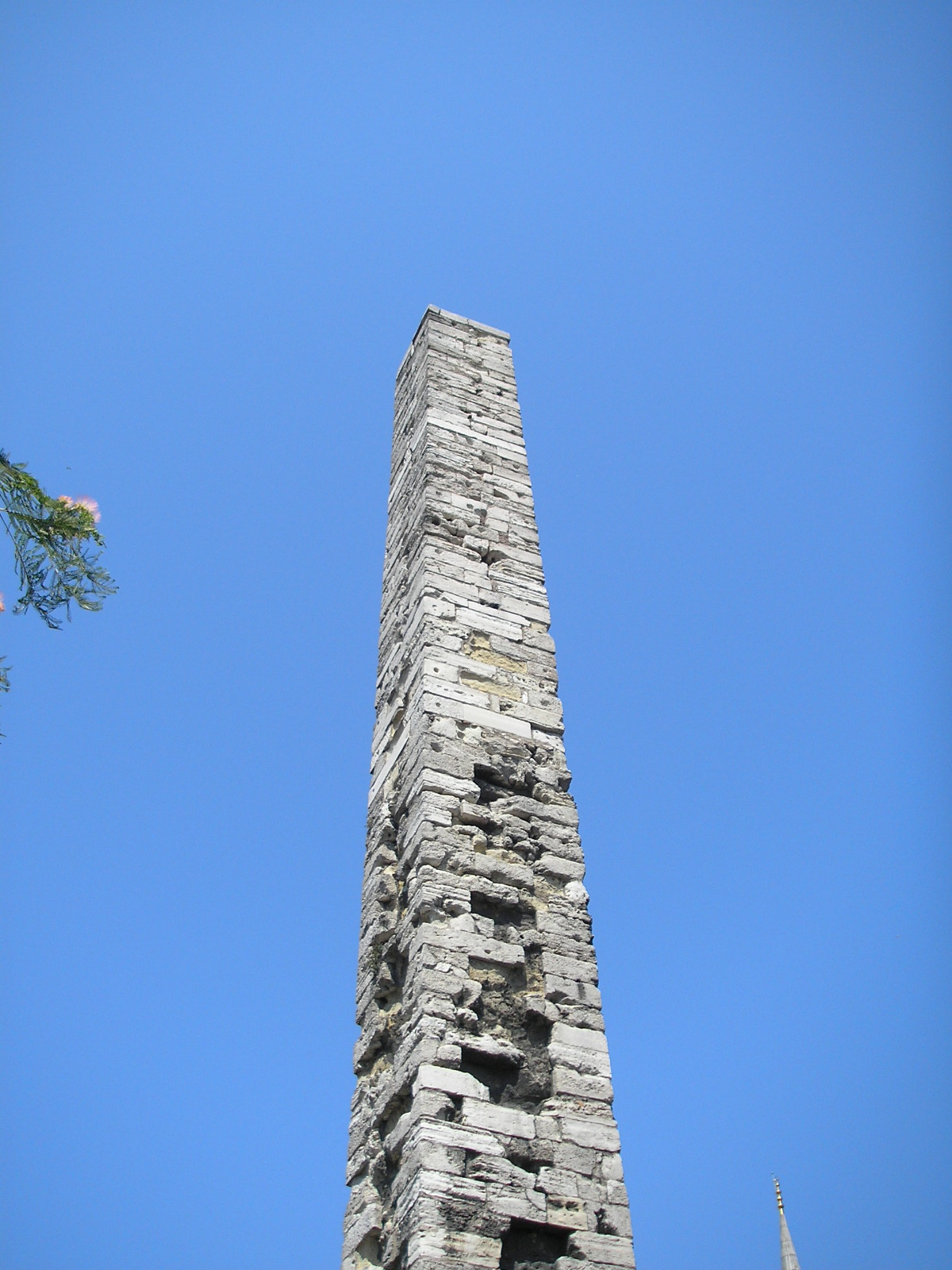 So-called Walled Obelisk in the Hippodrome of Constantinople.